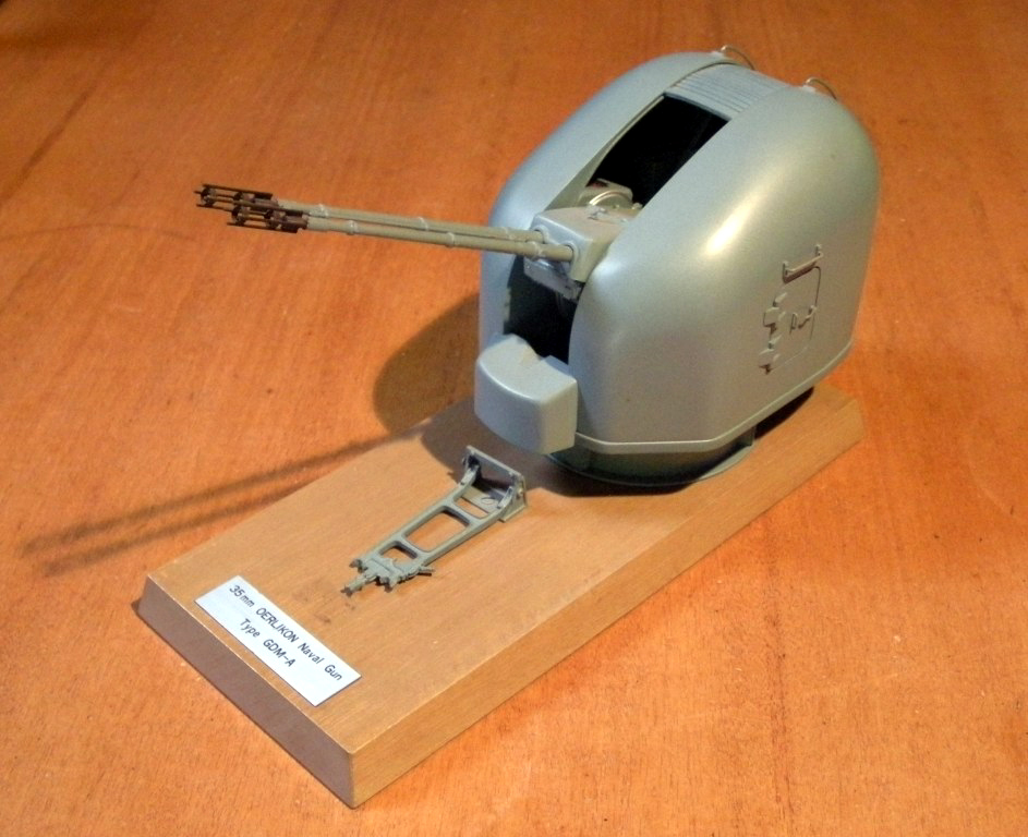 35 mm OERLIKON Naval Gun